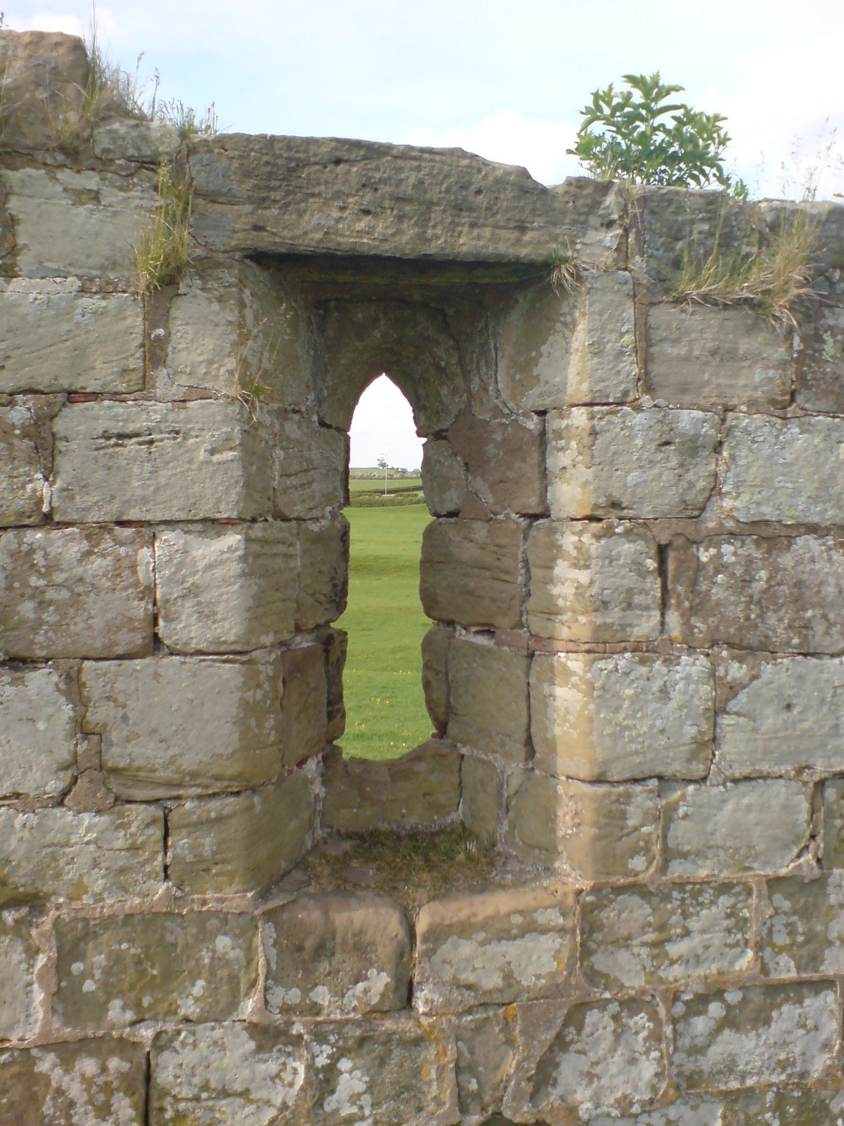 One of the lancet windows in the north wall of the chancel of the rouned Cresswell parish church, Staffordshire, England